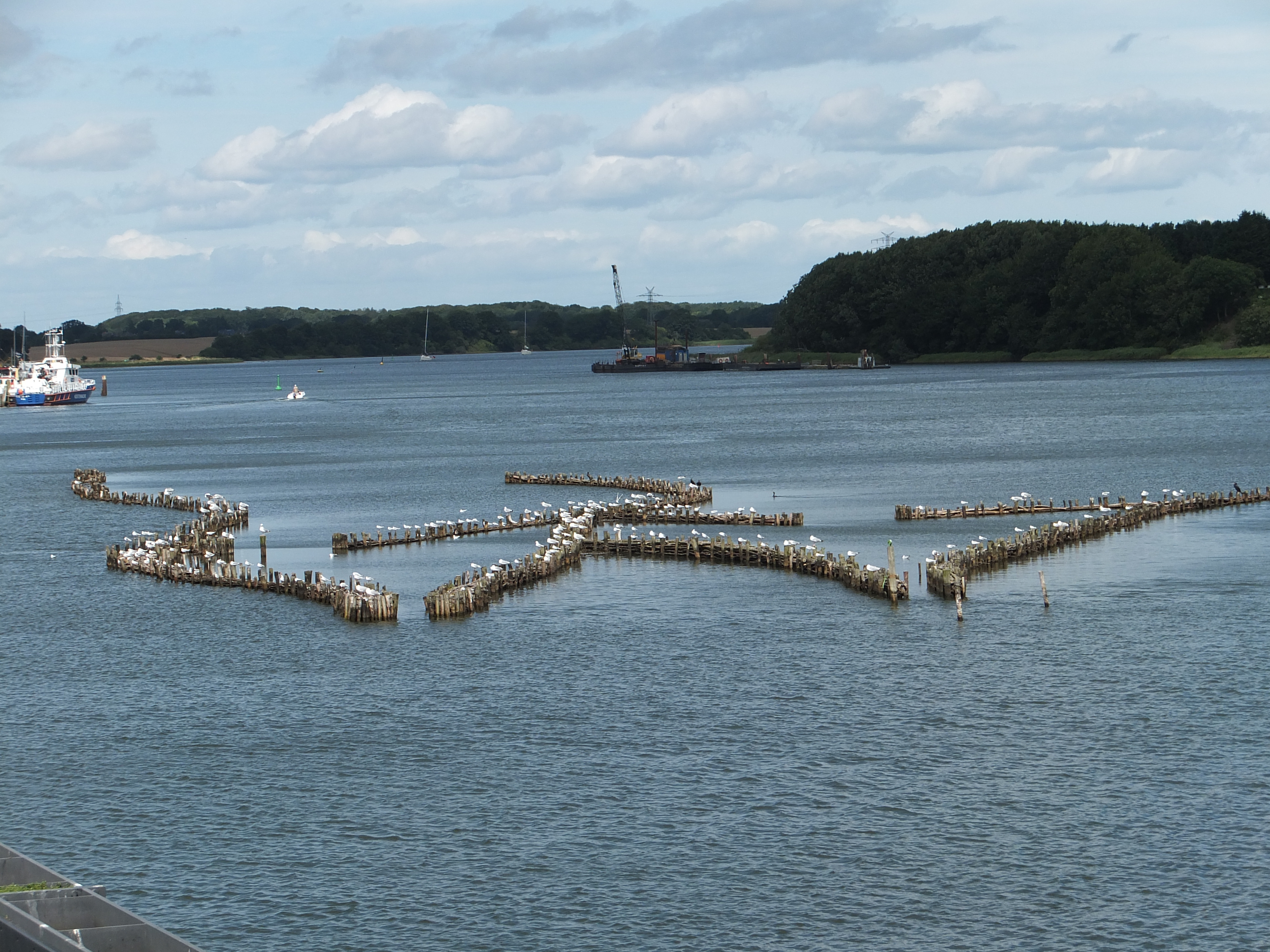 Herring fence of Kappeln, Germany; cultural monument as last of his kind in Europe